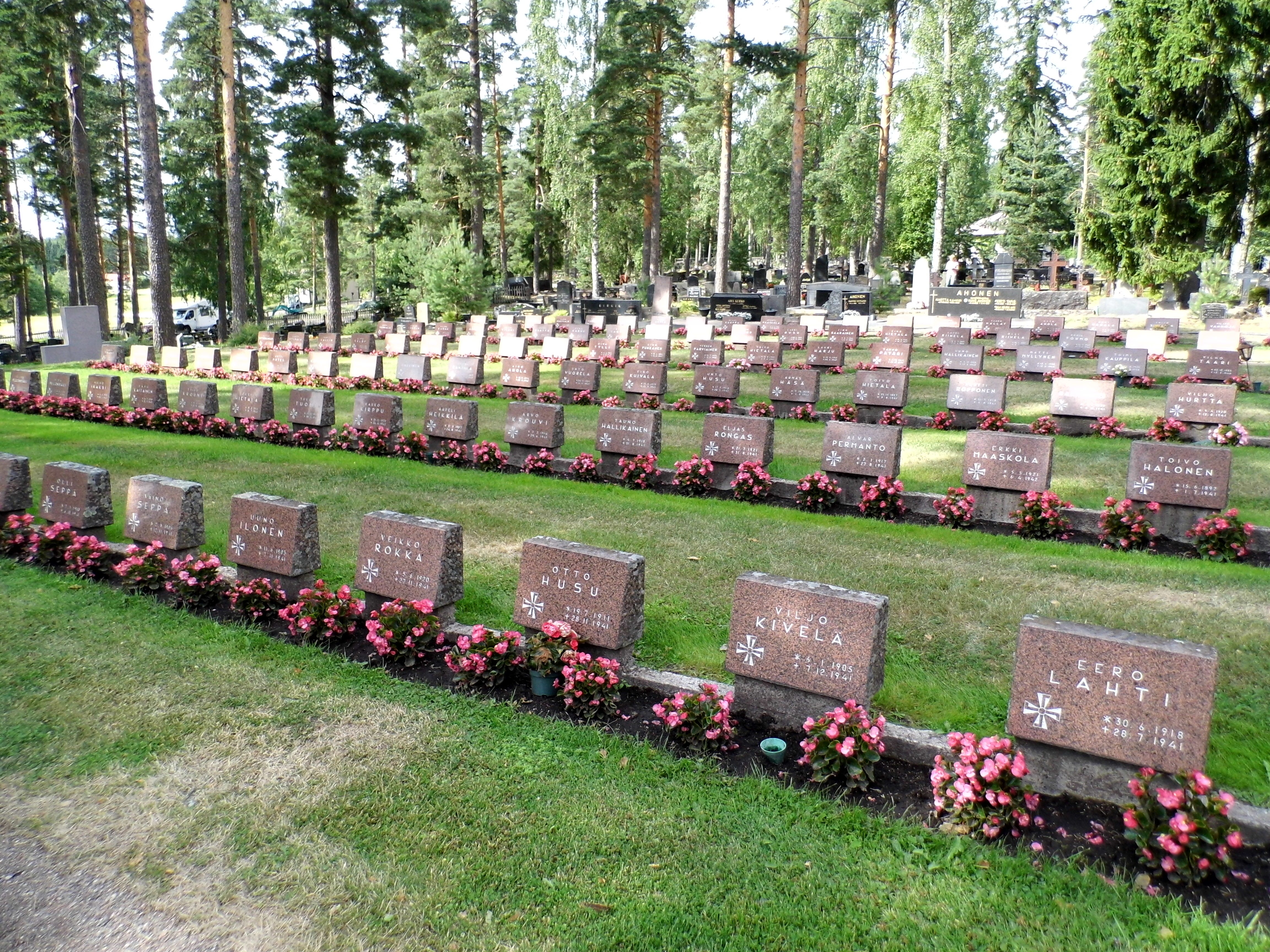 Military cemetary at church in Miehikkälä, Finland